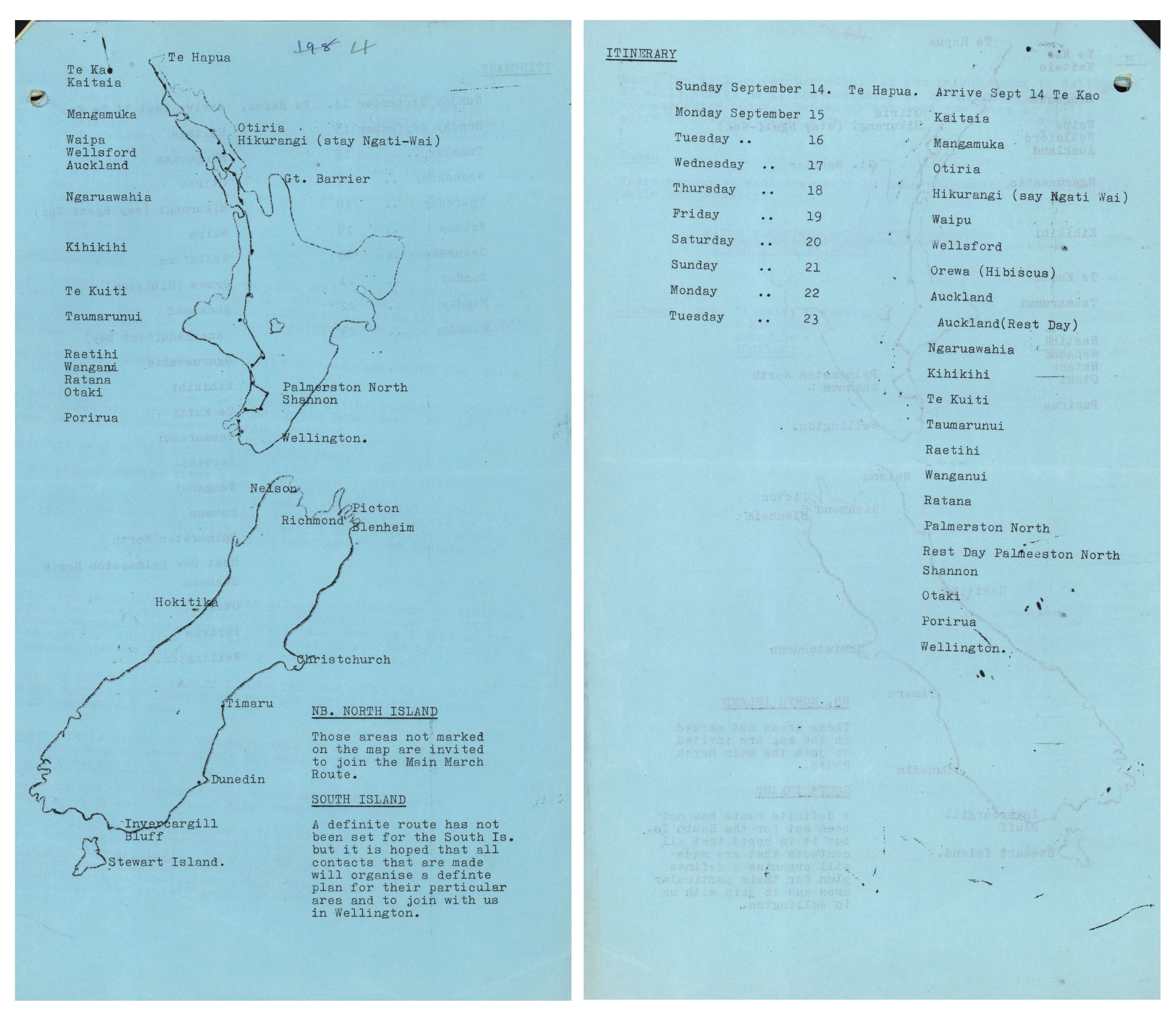 On 13 October 1975, a hikoi of 5,000 marchers arrived at Parliament to protest the ongoing alienation of Māori land. Organised by Māori land rights group Te Rōpū O Te Matakite and led by Dame Whina Cooper, the hikoi had departed from Te Hapua, Northland, on 14 September, and arrived in Wellington after marching 1,100 kms throughout the North Island. Te Rōpū O Te Matakite regarded the land march as ‘a climax to over a hundred and fifty years of frustration and anger over the continuing alienation of their lands’. Upon their arrival at Parliament they presented a petition signed by 60,000 people from around New Zealand to Prime Minister Bill Rowling. The petition called for an end to monocultural land laws which excluded Māori cultural values, and asked for the ability to establish legitimate communal ownership of land within iwi. The hikoi represented a watershed moment in the burgeoning Māori cultural renaissance of the 1970s. It brought unprecedented levels of public attention to the issue of alienation of Māori land, and established a method of protest that was repeatedly reused in the following decades. To mark the 40th anniversary of the Land March, Archives New Zealand has created an album on Flickr to highlight key documents within our holdings that relate to the event. These include the petition with 60,000 signatures presented by Dame Whina Cooper to Prime Minister Bill Rowling, images of the Land March approaching Wellington City and correspondence related to the planning that went on behind the scenes to support the march taking place. This route for the Land March was put together by Te Rōpū O Te Matakite, the organisation behind the march. Archives Reference: AAMK 869 W3074 684/d 19/1/774 Part 1 (R11838413) This file is open access and can be seen in our Wellington Reading Room. For updates on our On This Day series and news from Archives New Zealand, follow us on Twitter: Material from Archives New Zealand